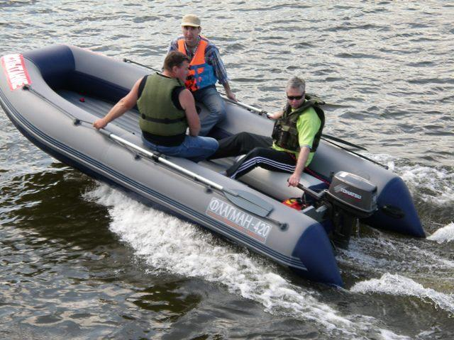 PVC inflatable boat with hard bottom Flagman